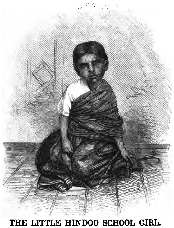 The Little Hindoo School Girl (p.81, June 1866, Sarah Sanderson - 22 March 1866, Leeds)